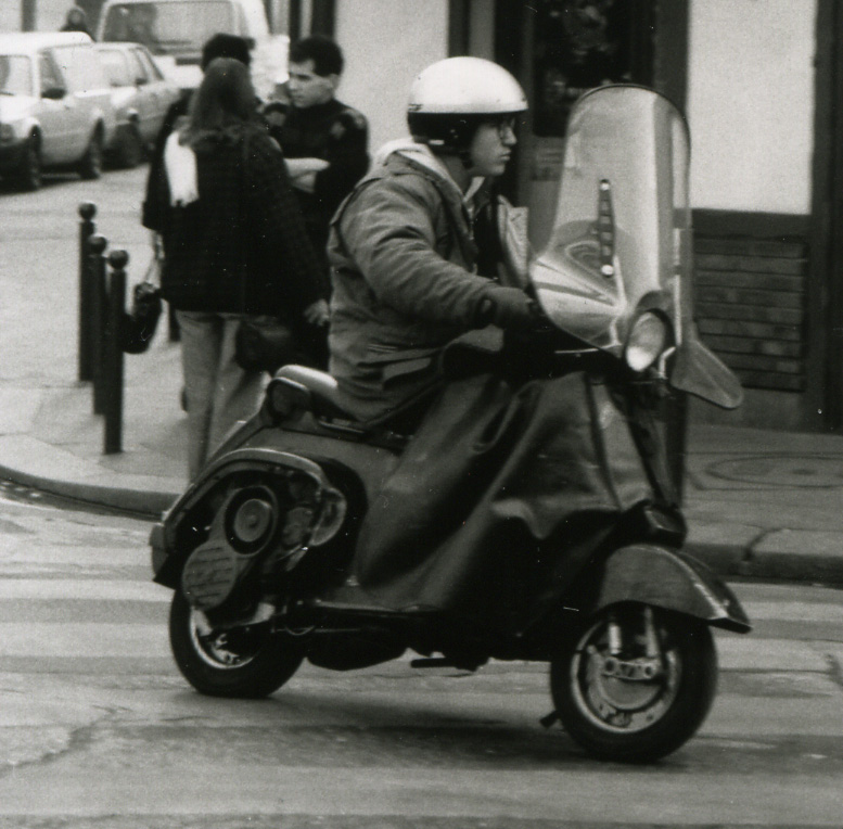 Scooter in Paris 1991.